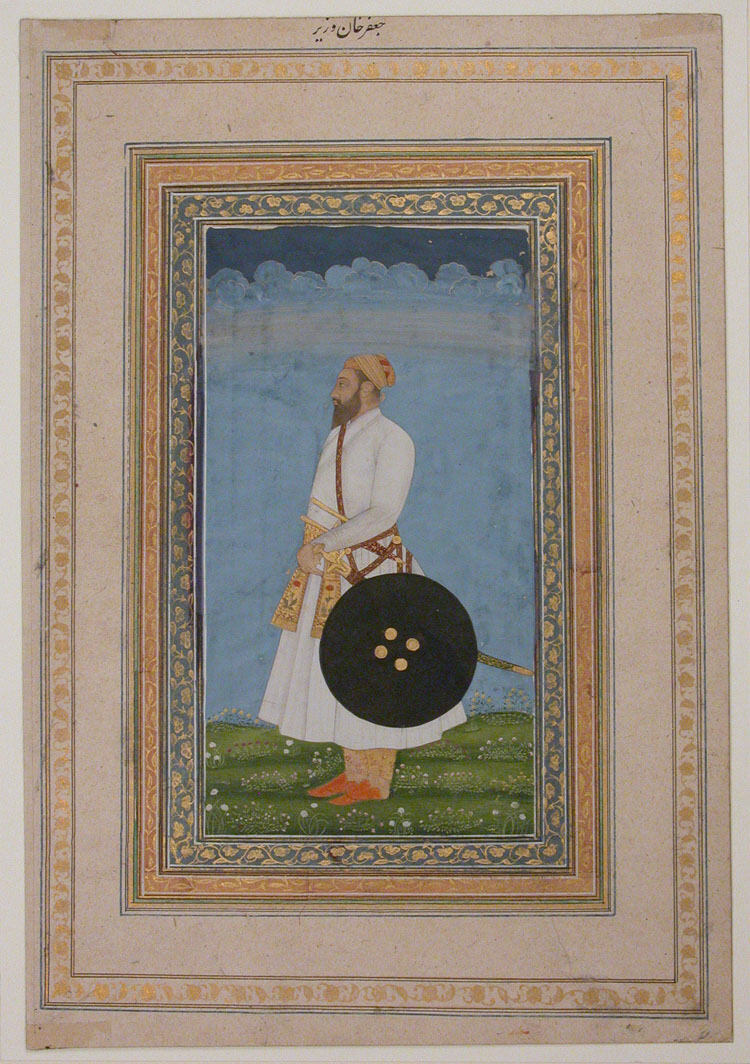 Portrait of Jafar Khan Object Name: Album leaf Date: 17th century Geography: India Culture: Islamic Medium: Ink, opaque watercolor, and gold on paper Dimensions: H. 3 7/8 in. (9.8 cm) W. 7 1/8 in. (18.1 cm) Classification: Codices Credit Line: Bequest of George D. Pratt, 1935 Accession Number: 45.174.13 This artwork is not on display